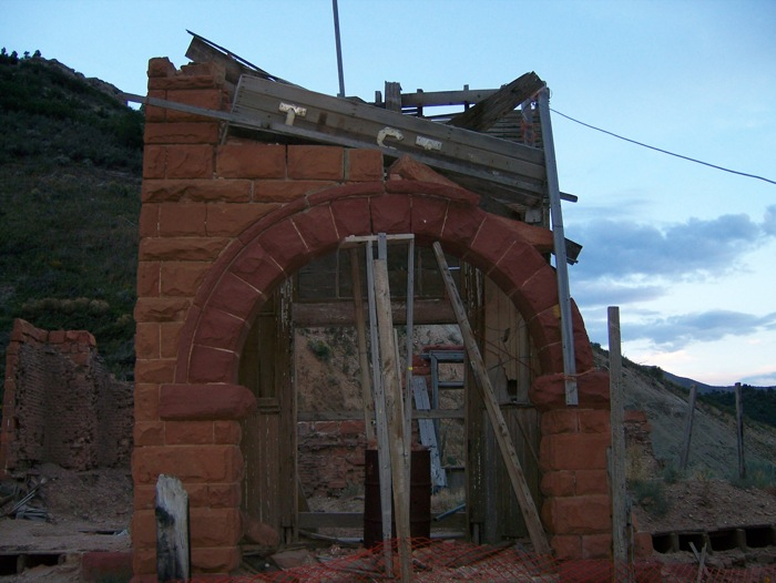 What remains of the former school at Thistle, Utah